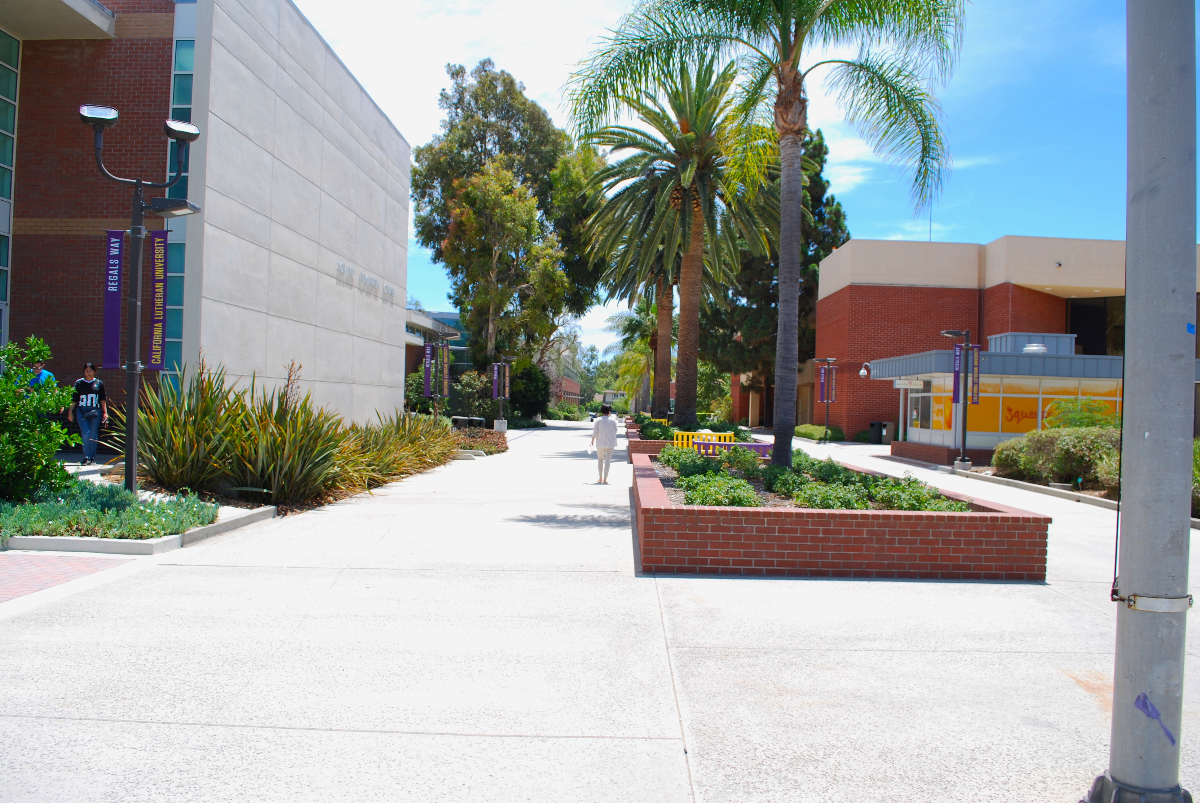 Walkway by flagpoles at California Lutheran University (CLU) in Thousand Oaks, CA.